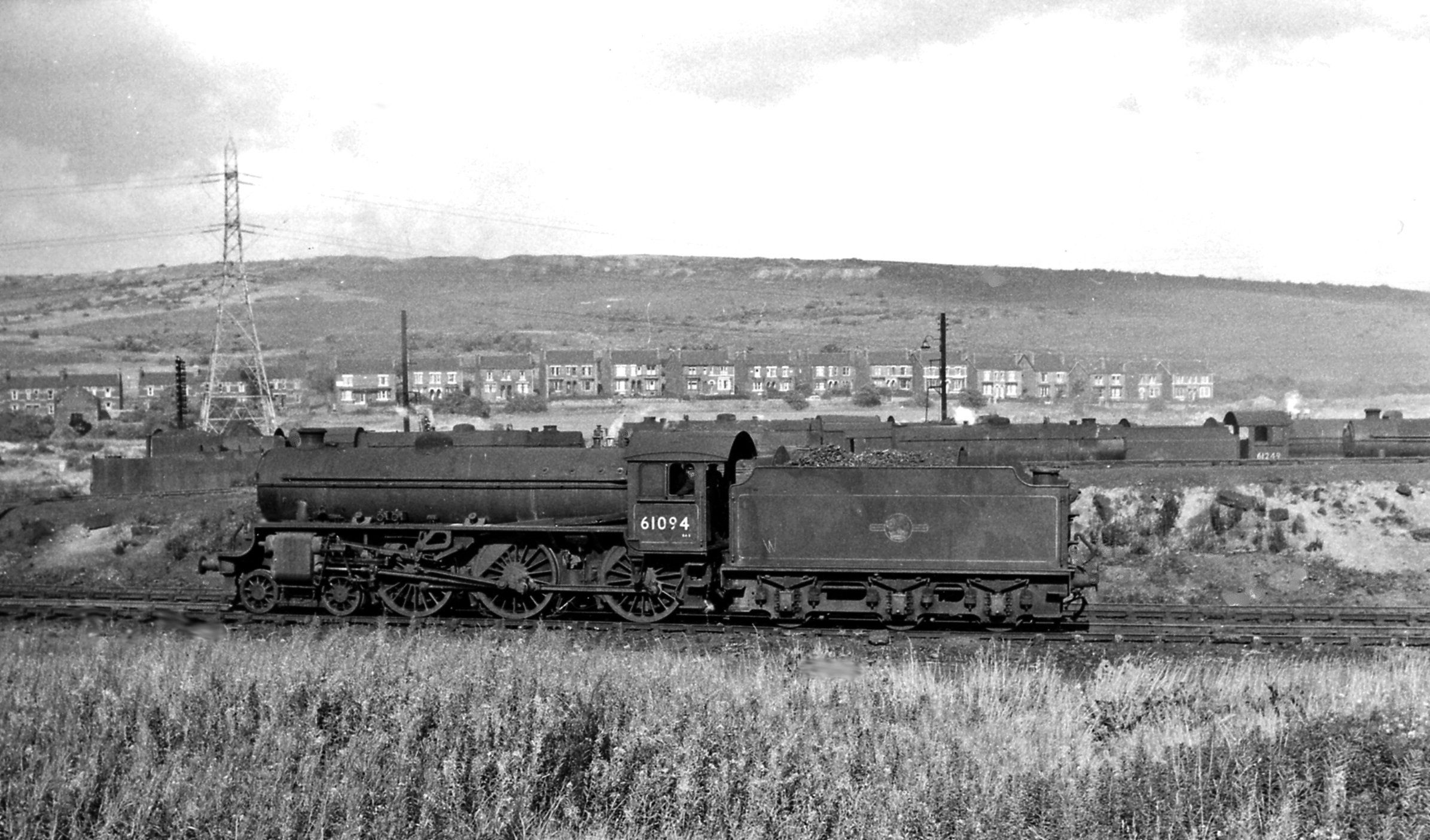 LNE B1 4-6-0 passing Canklow Locomotive Depot. View eastward past a line-up of engines outside the Depot, across the ex-North Midland Chesterfield - Rotherham line and the River Rother to the hills south of Rotherham and towards Whiston. By 1963, Canklow Depot was in the Eastern Region (coded 41D) and Thompson B1 No. 61094 (built 11/46, withdrawn 8/65) belonged there.